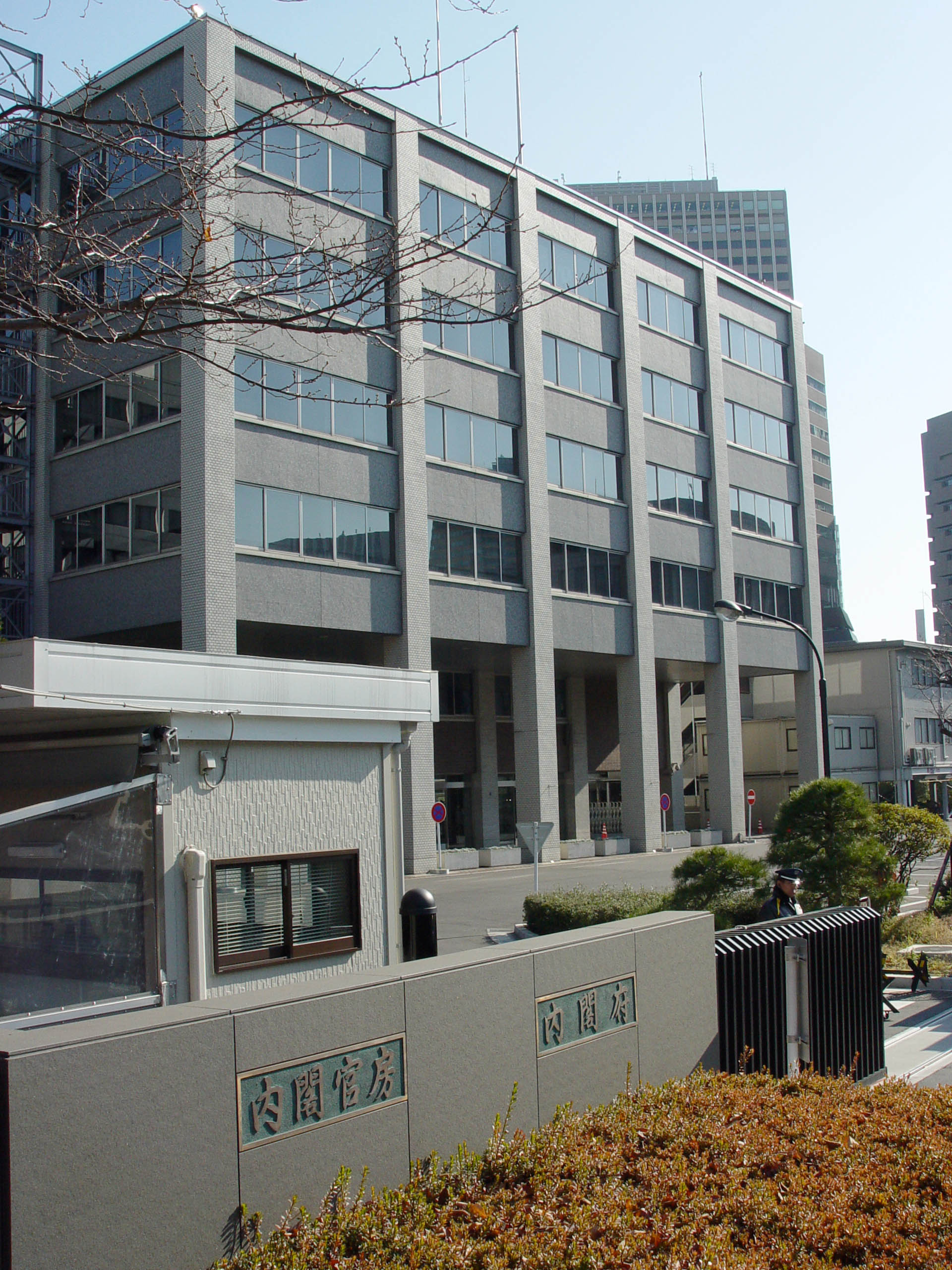 Cabinet Office Building (Japan): Cabinet Secretariat Cabinet Office 内閣府庁舎: 内閣官房 内閣府